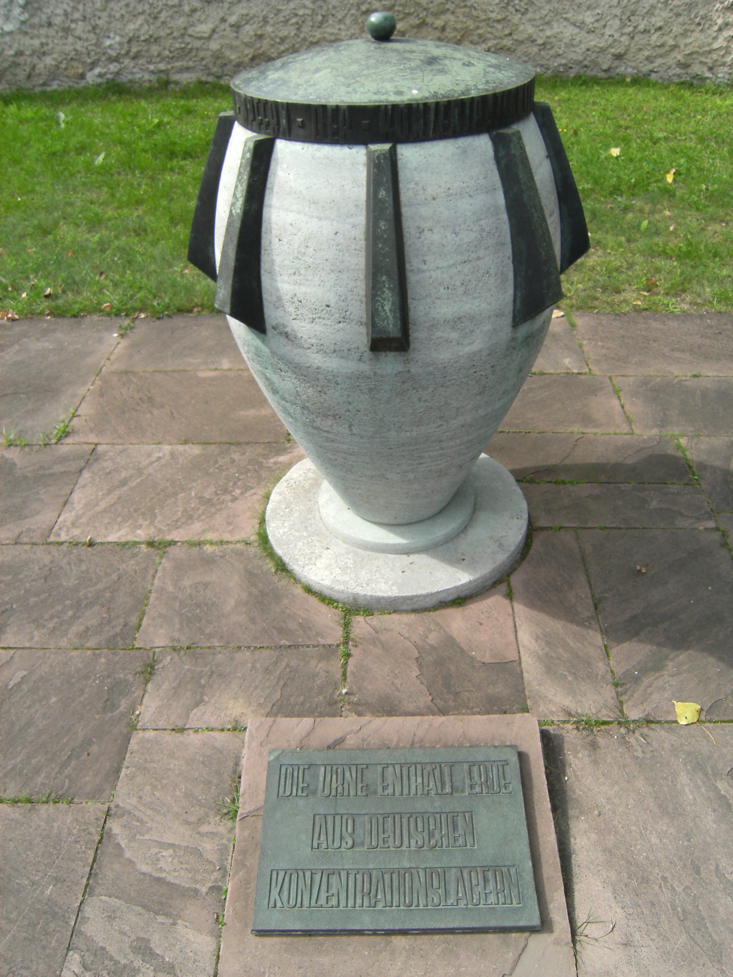 Plötzensee prison, Urn of Earth of concentration Camps